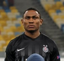 Léandre Tawamba playing for Partizan against Dynamo Kyiv (7 December 2017)